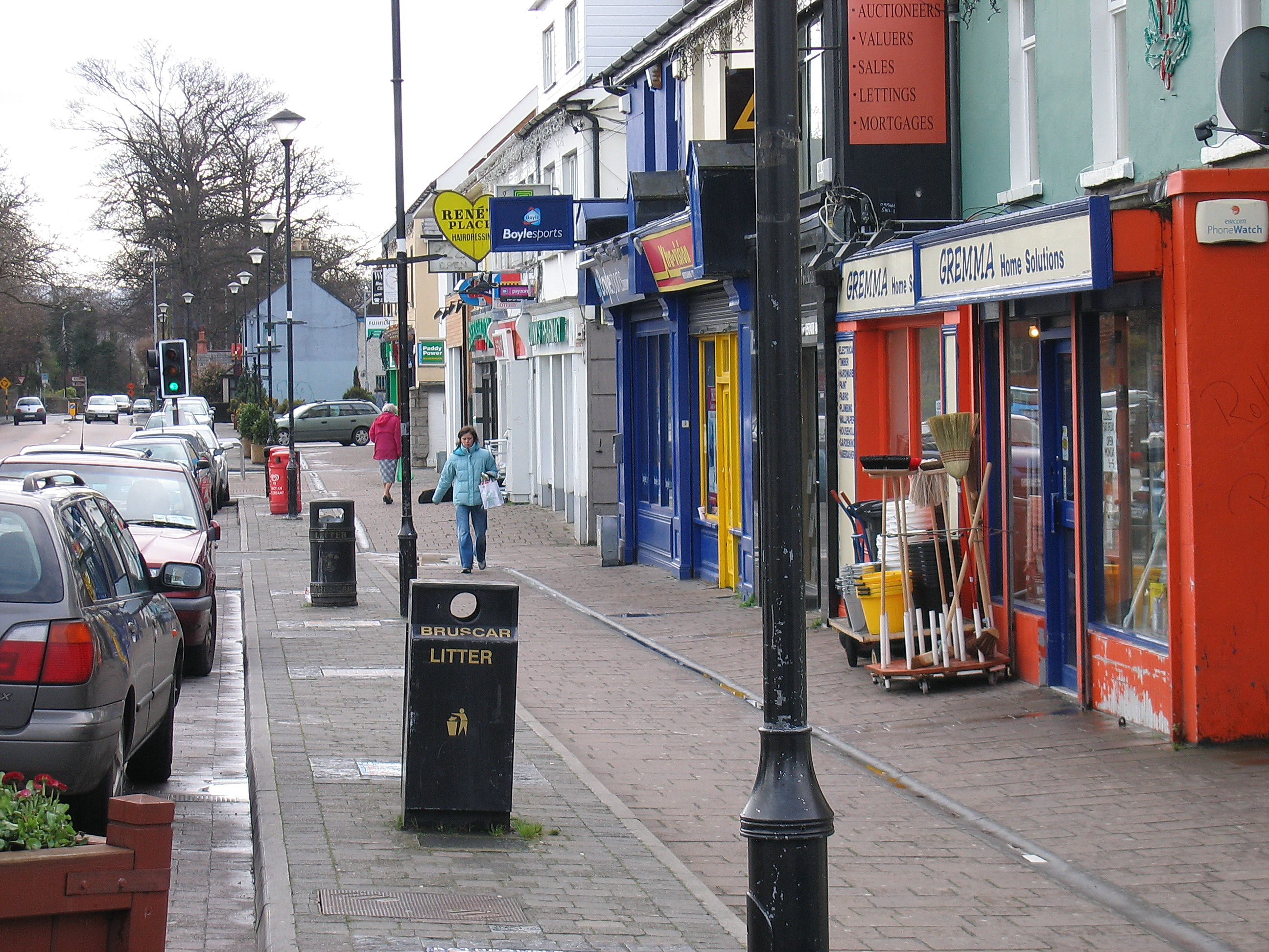 Shankill Village